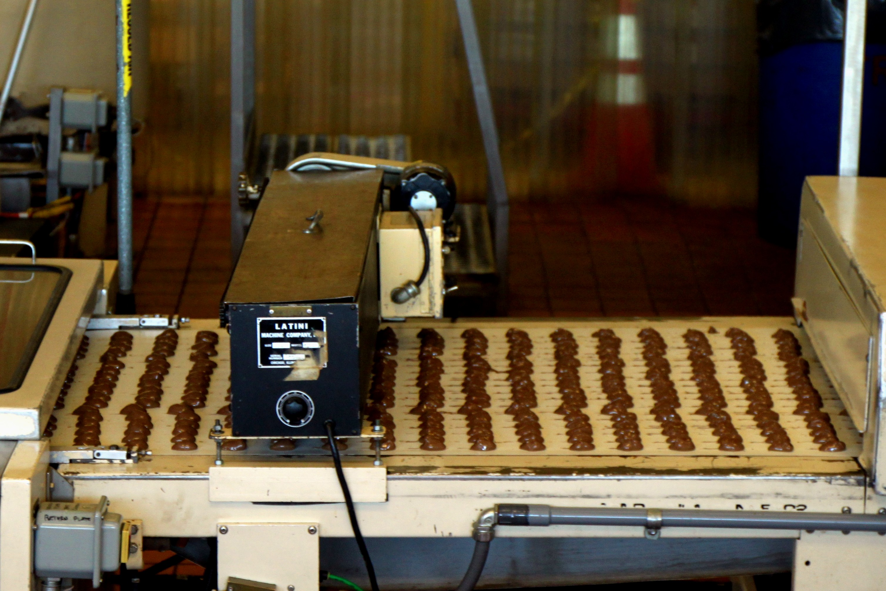 By 1976 the old sugar plantation business in Hawaii was waning. Mauna Loa Macadamia Nut Corporation began converting five old sugar plantations to macadamia plantations at the rate of 1000 acres a year. Most of those trees are still producing the premium macadamia nuts you enjoy today. Kea'au outside Hilo, Big Island Hawai'i